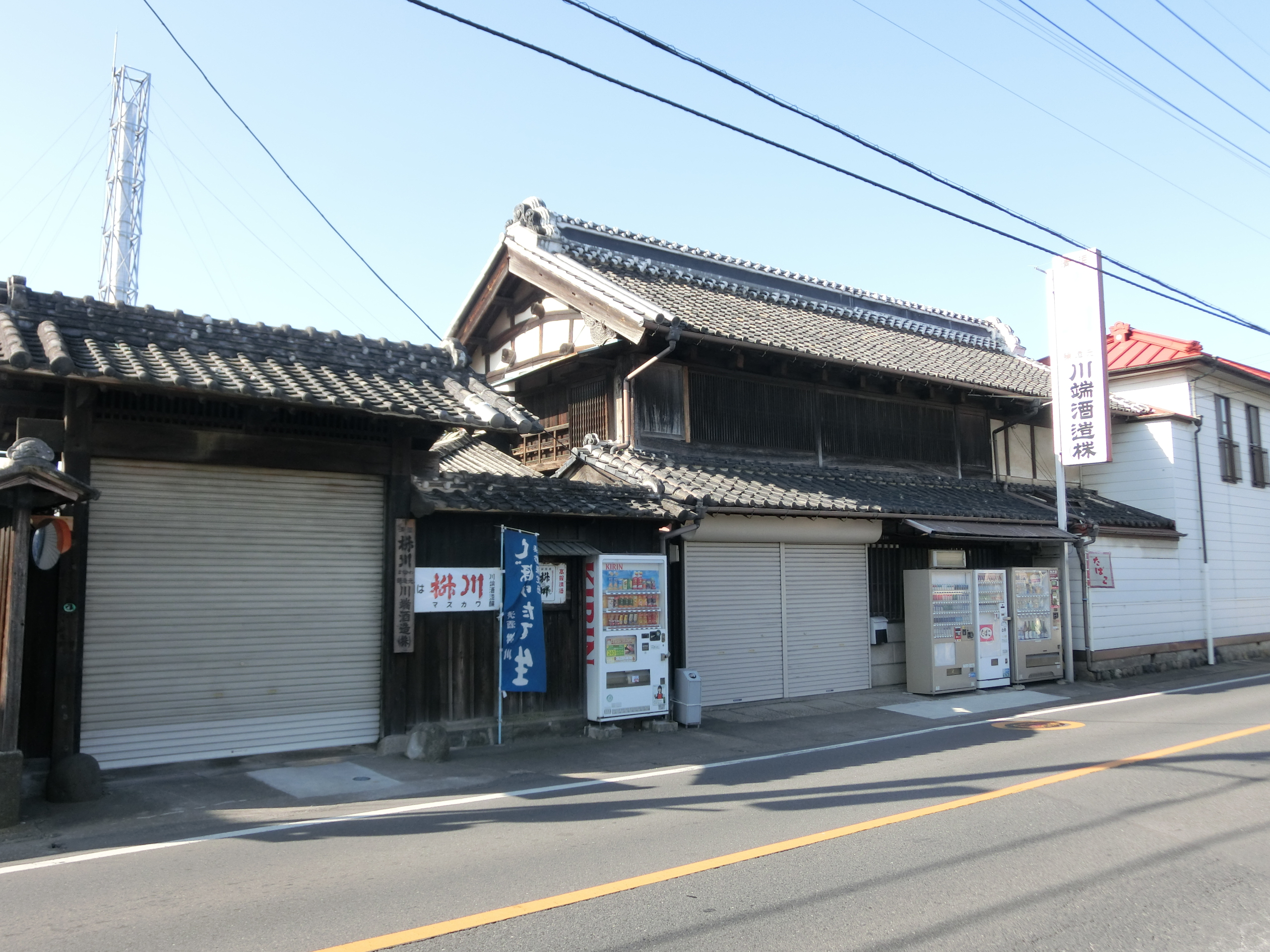 Kawabata Sake Brewery Head Office